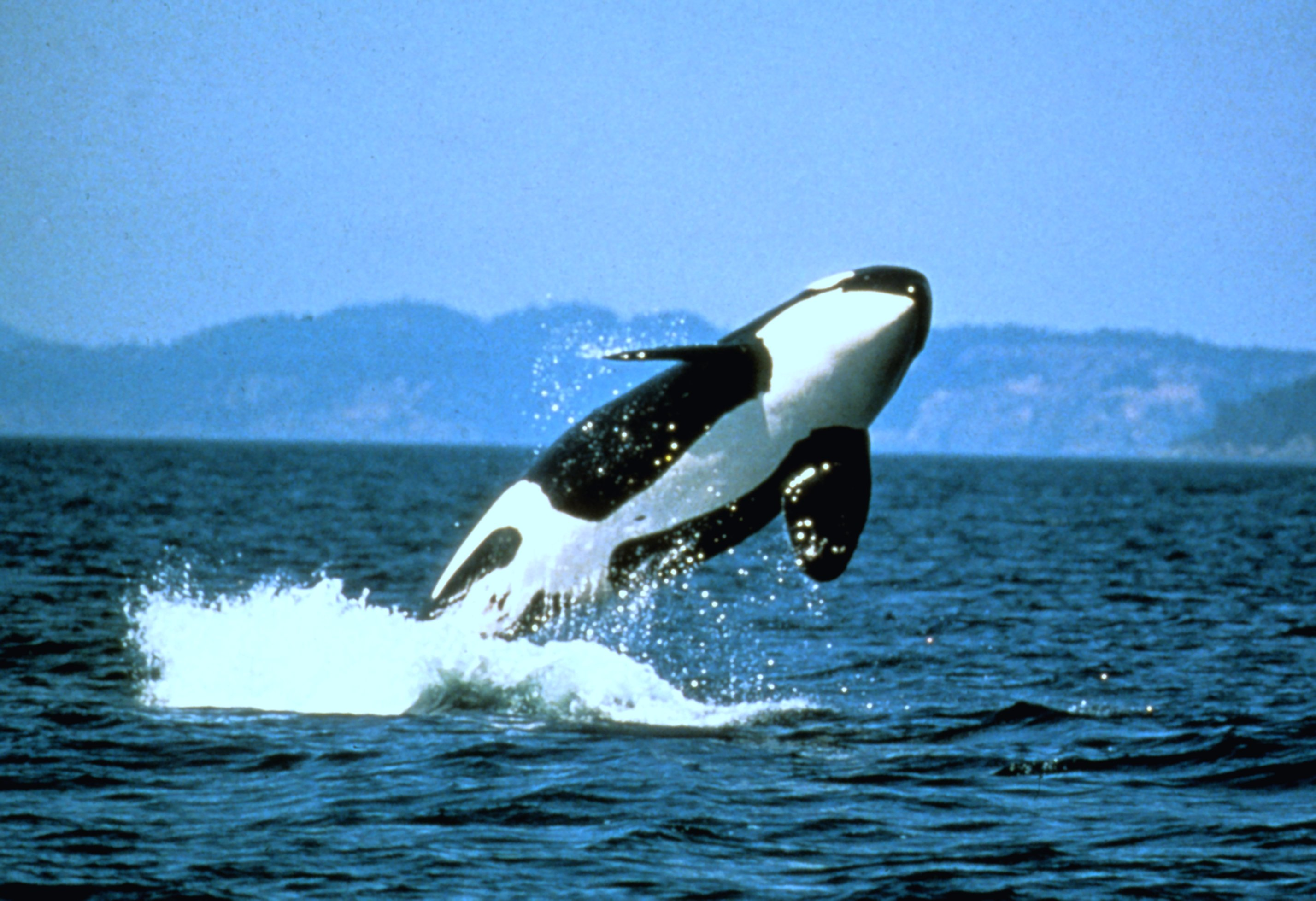 Killer whale breaching.